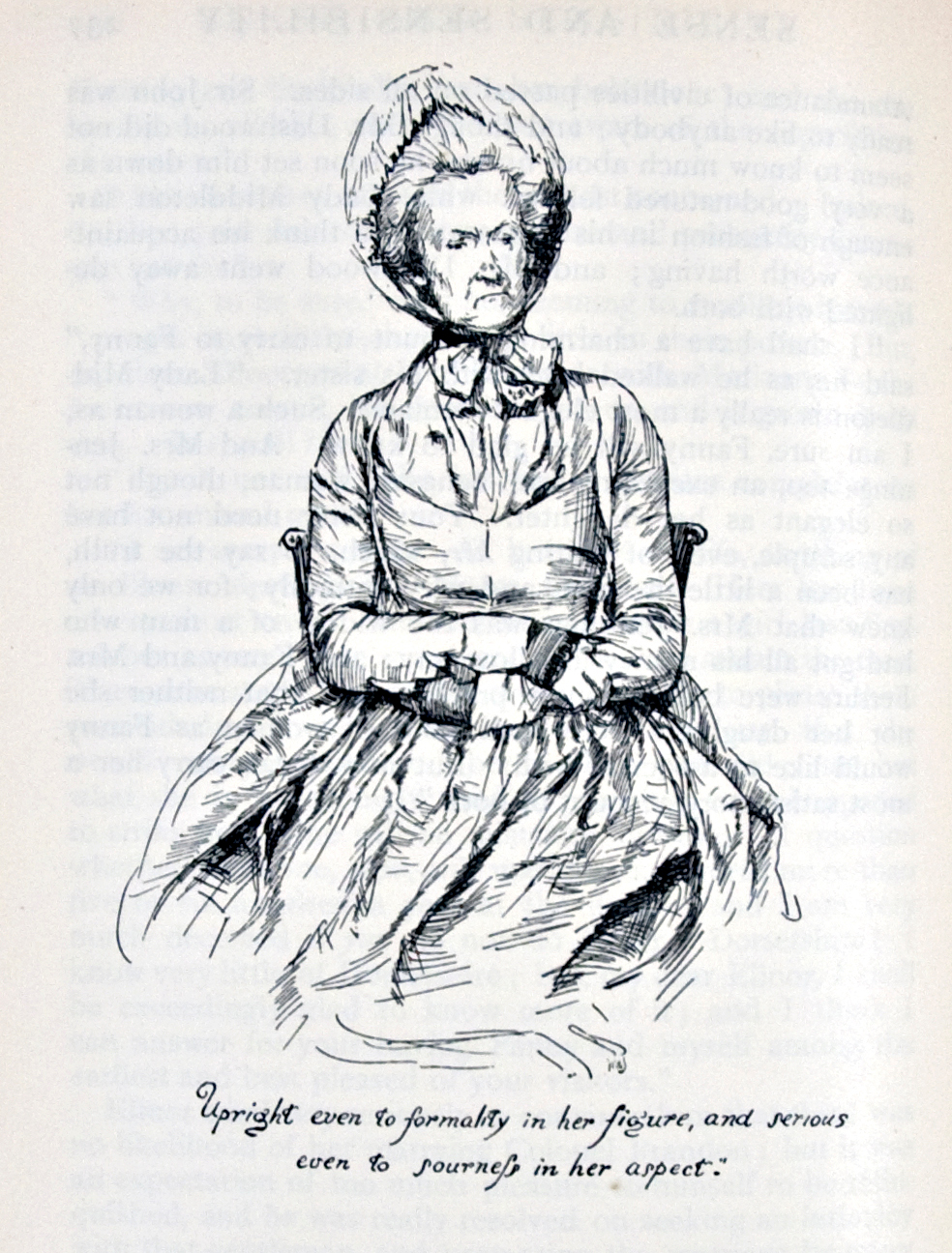 "Upright, even to formality, in her figure, and serious, even to sourness, in her aspect" - Description of Mrs. Ferrars. Austen, Jane. Sense and Sensibility. London; George Allen, 1899, page 238.